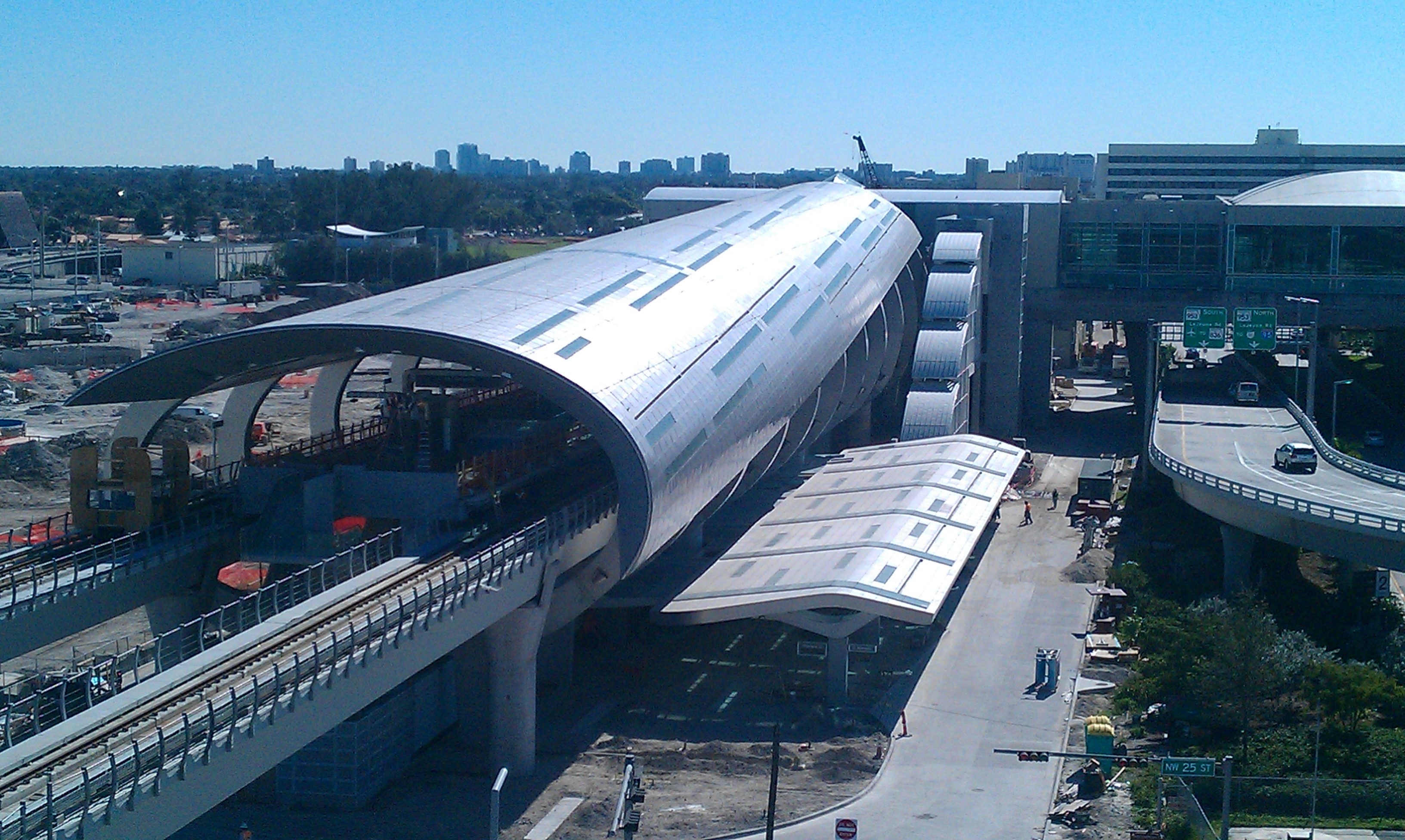 Miami Intermodal Center (MIC) Station Metrorail station with adjoining Metrobus depot